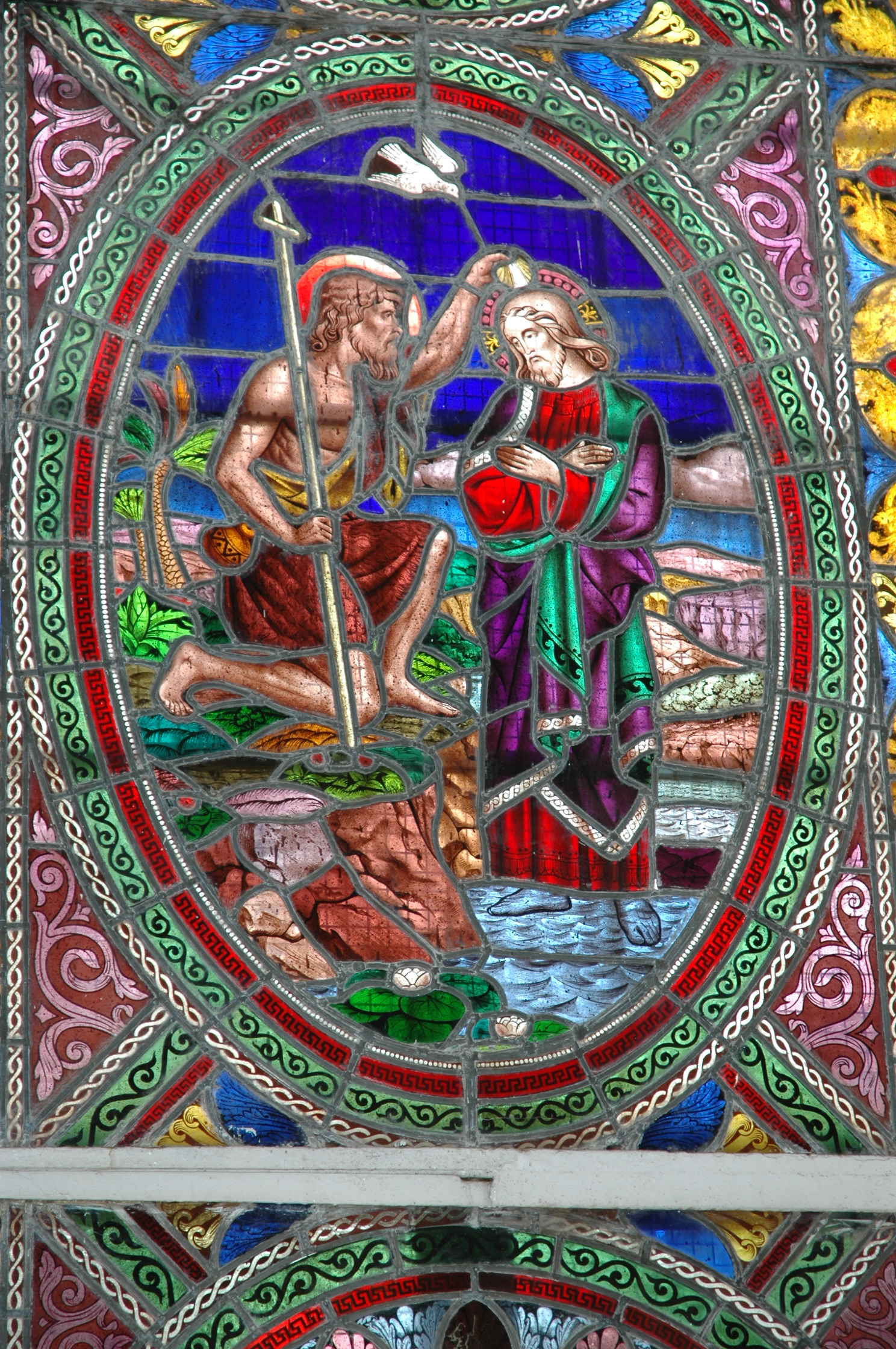 St. George's Cathedral, Chennai